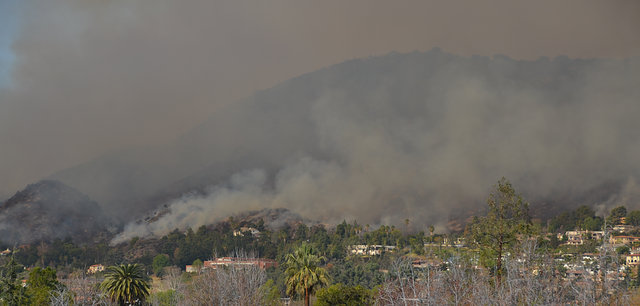 Colby Fire in the San Gabriel Mountains foothills — as seen from Glendora, California.